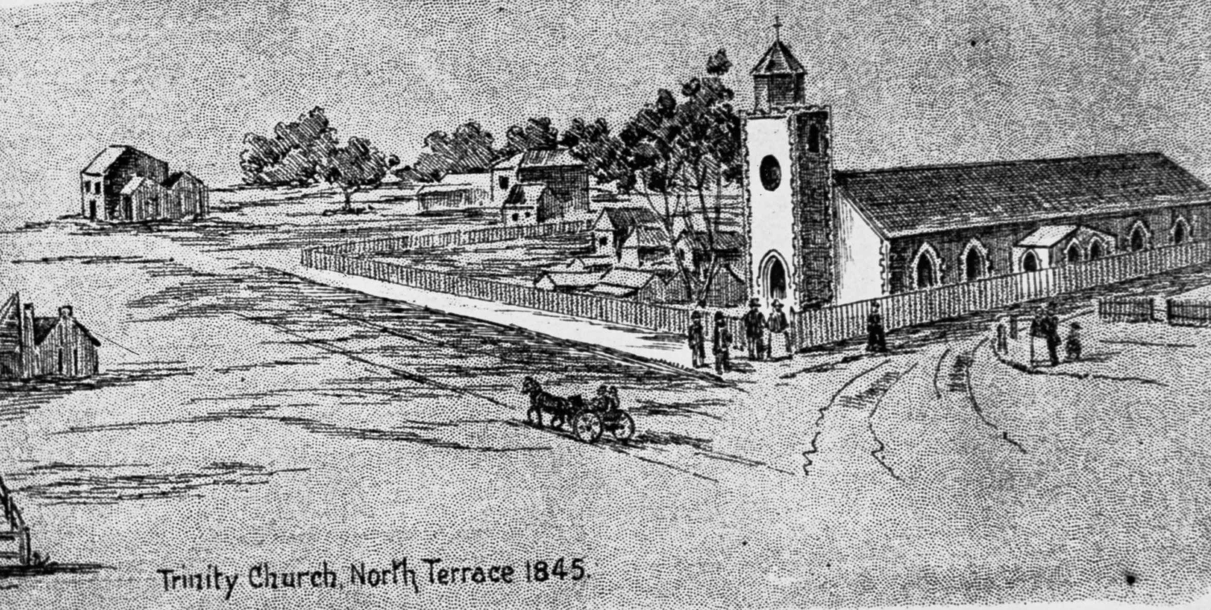 Church and other buildings on corner of North Terrace and Morphett Street, Adelaide.